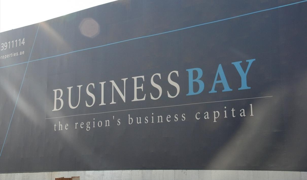 This is a photo showing a Business Bay advertisement in Business Bay in Dubai, United Arab Emirates on 30 January 2007.